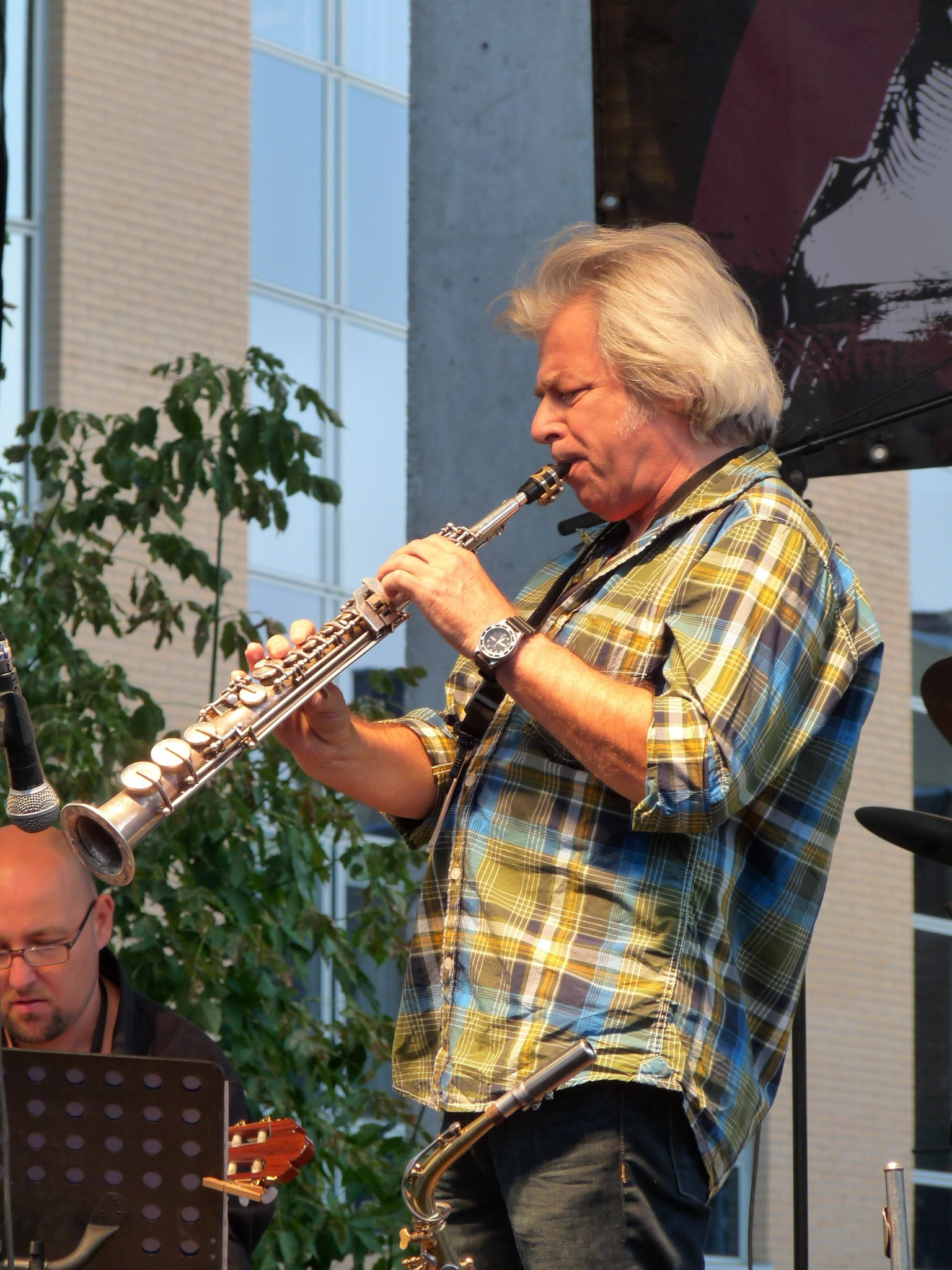 Tamás Somló (1947– ) Hungarian singer, musician and melody writer, on the Day of Hungarian Song in 2009.